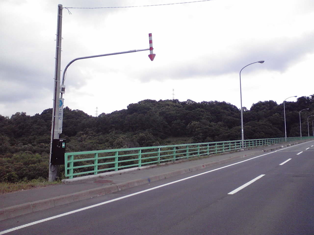 This is a landscape of Hokkaido prefectural road No.981 Kaminagawa-Hagiwara Line.